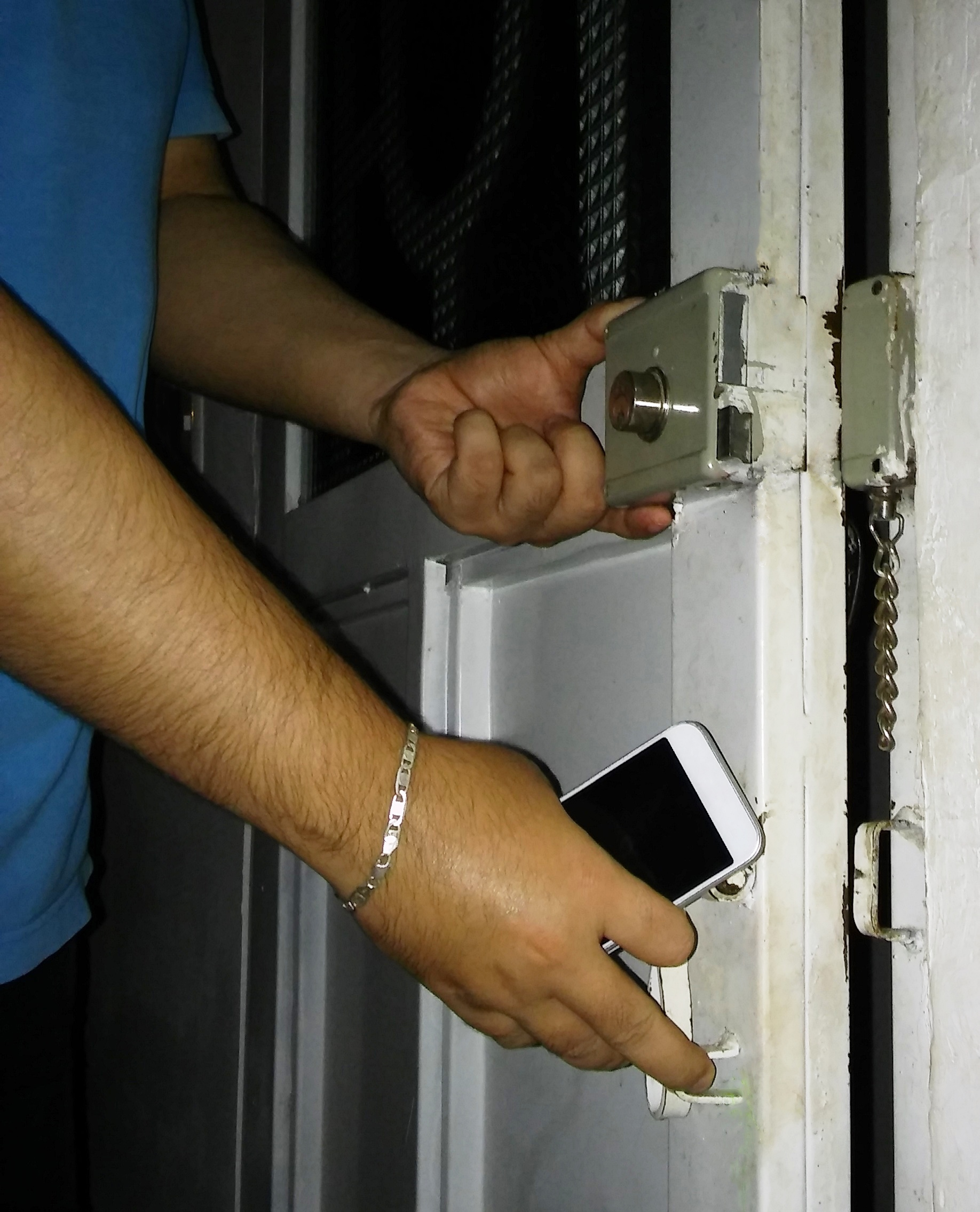 Nomophobia is the irrational fear of leaving home without a mobile phone.